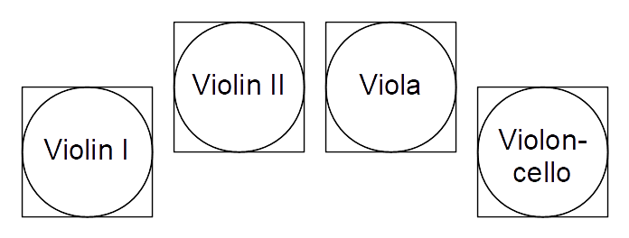 Ensemble layout - string quartet